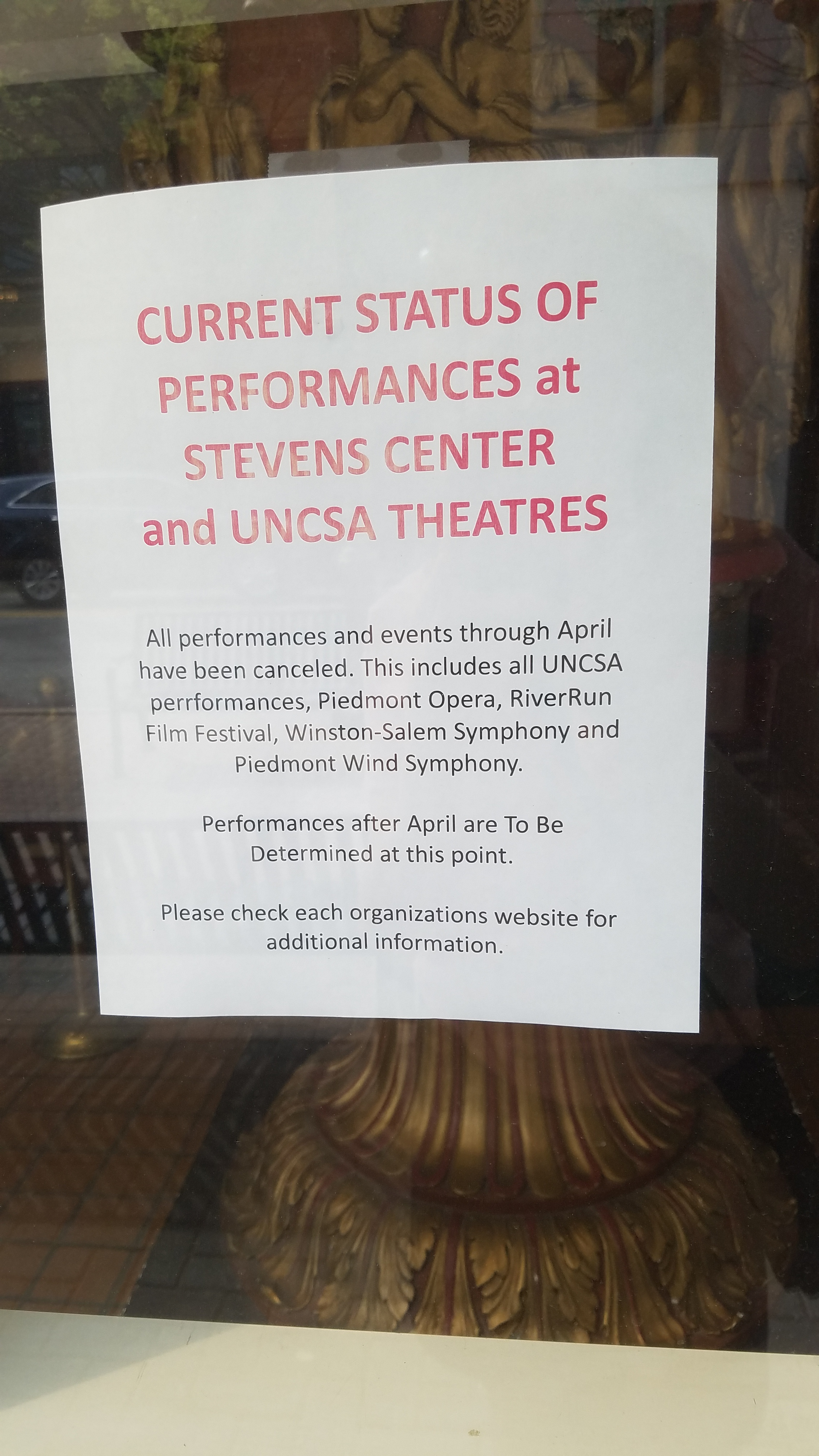 A sign about the closure and cancellation of various events, including the RiverRun International Film Festival because of the 2019-2020 coronavirus pandemic in the United States.